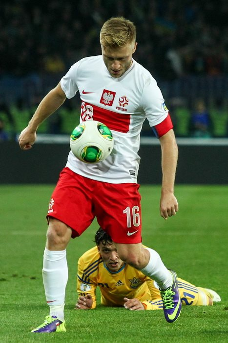 Jakub Błaszczykowski